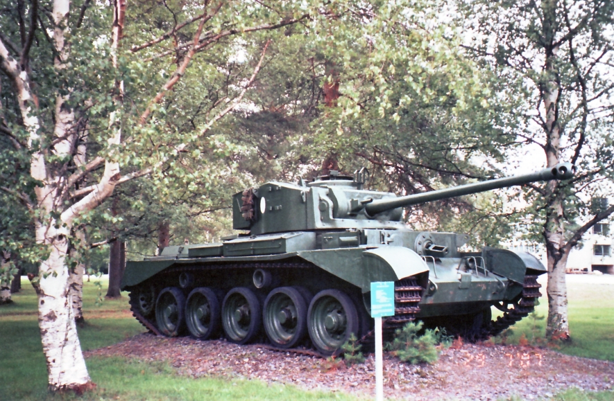 A Comet tank in the area of former Pohja Brigade in Oulu, Finland, 2007.